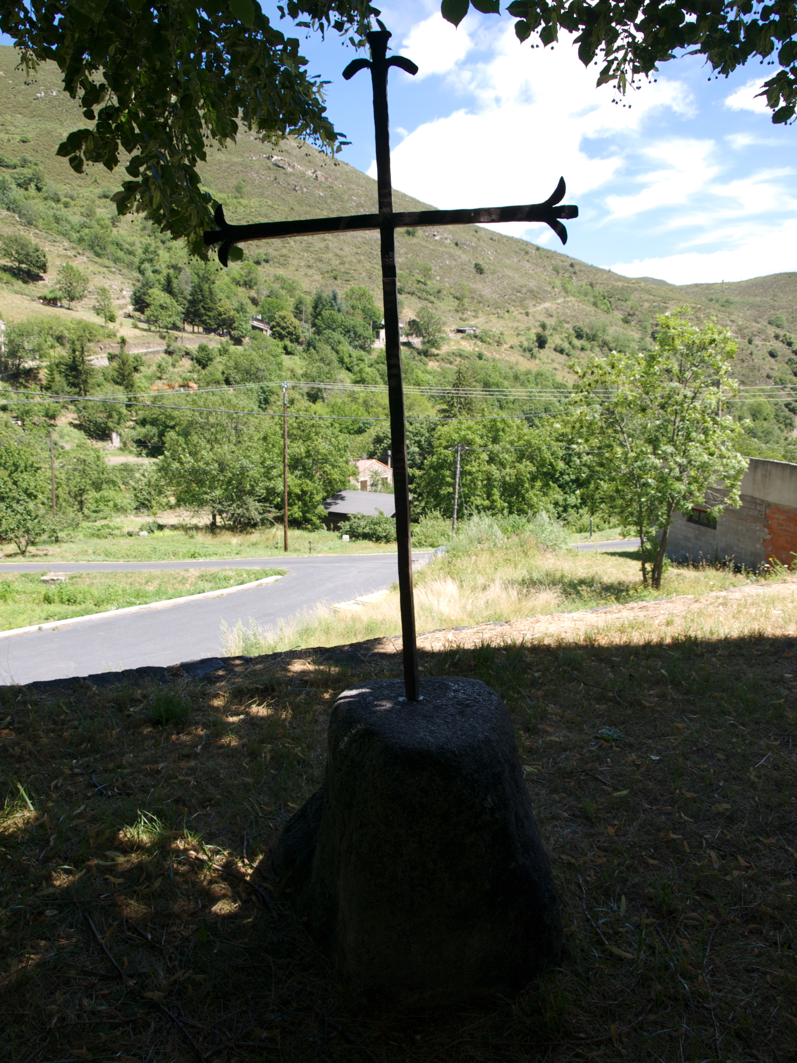 Photo of the little french town Urbanya